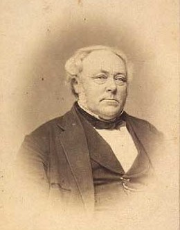 Niels Kjærbølling (1806-1871), Danish ornithologist and founder of The Copenhagen Zoological Garden